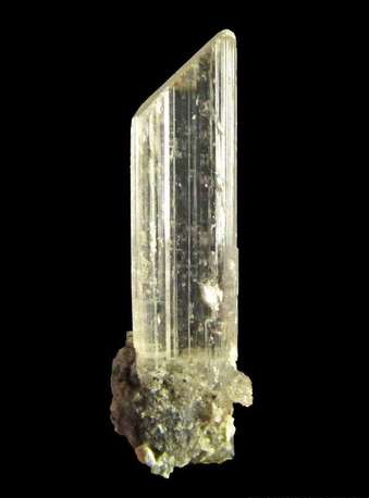 1.7 x 0.4 x 0.2 cm. Leiteite is a very rare arsenic antimony oxide, named in 2007 from a single specimen found at Tsumeb. This exceptional, single crystal is gemmy, lustrous, and sharp. This is a superb and important example of the species. Ex Mark Rattay and Marshall Sussman (from his important rarities suite, sold off in 2003 to me). Originally labeled as leiteite, but analysis found the specimen to be stibioclaudetite. Locality: Tsumeb Mine, Tsumeb, Otjikoto Region, Namibia